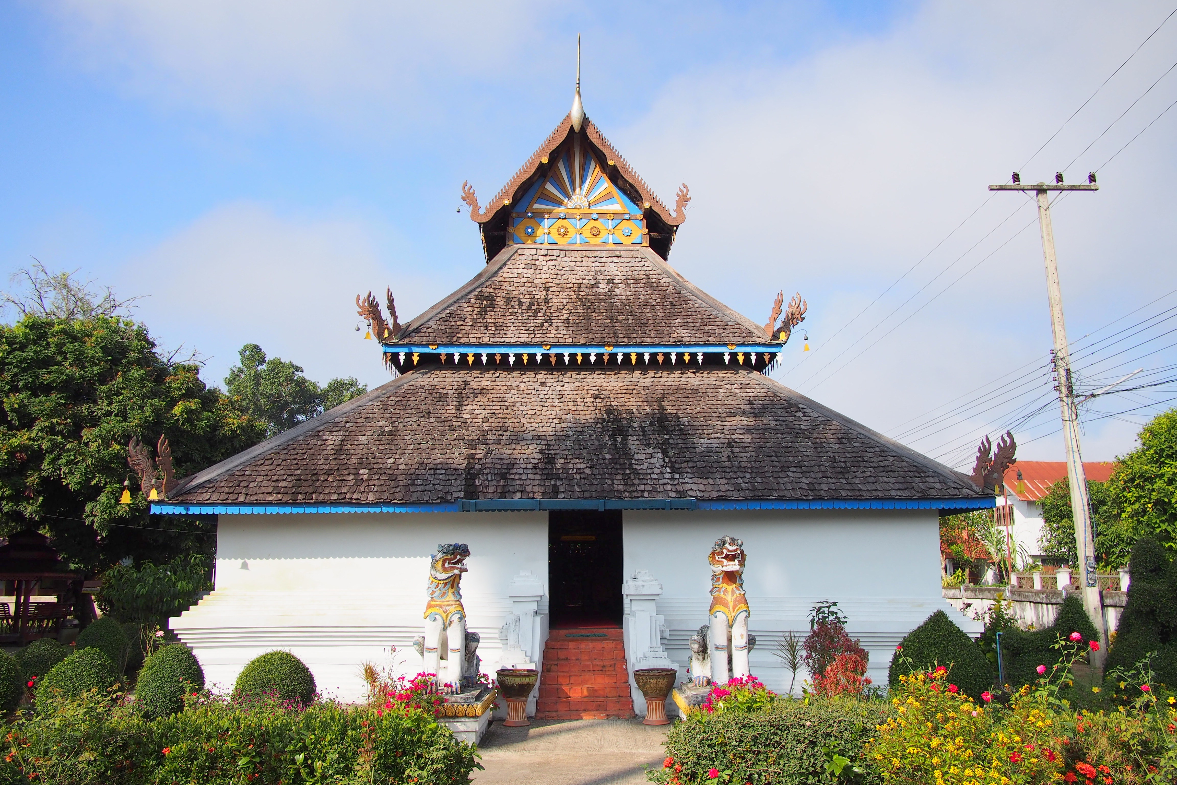 Wat Ban Ton Laeng, Pua District, Nan Province